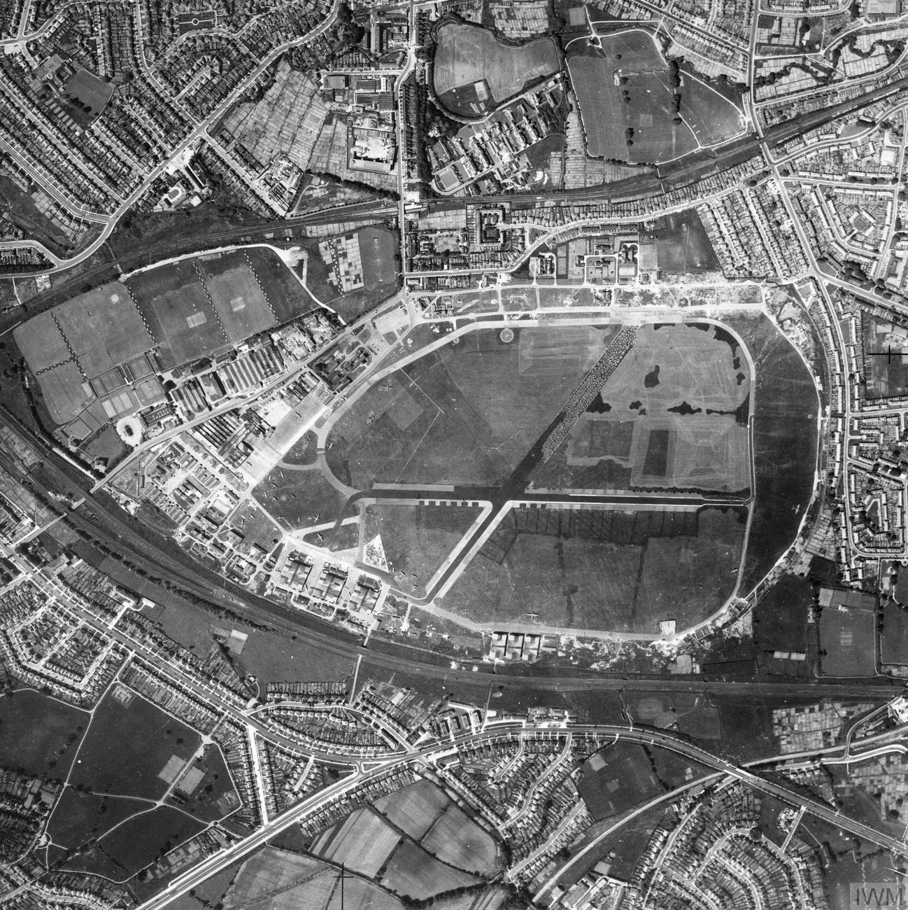 IWM caption : Vertical aerial view of RAF Hendon, Middlesex. Numerous aircraft can be seen dispersed around the airfield perimeter. At this time, No. 24 Squadron RAF, No. 116 Squadron RAF, No. 1416 (Reconnaissance) Flight and No. 1 Camouflage Unit were all based at Hendon. Note the attempts to camouflage the airfield and runways in a variety of schemes.